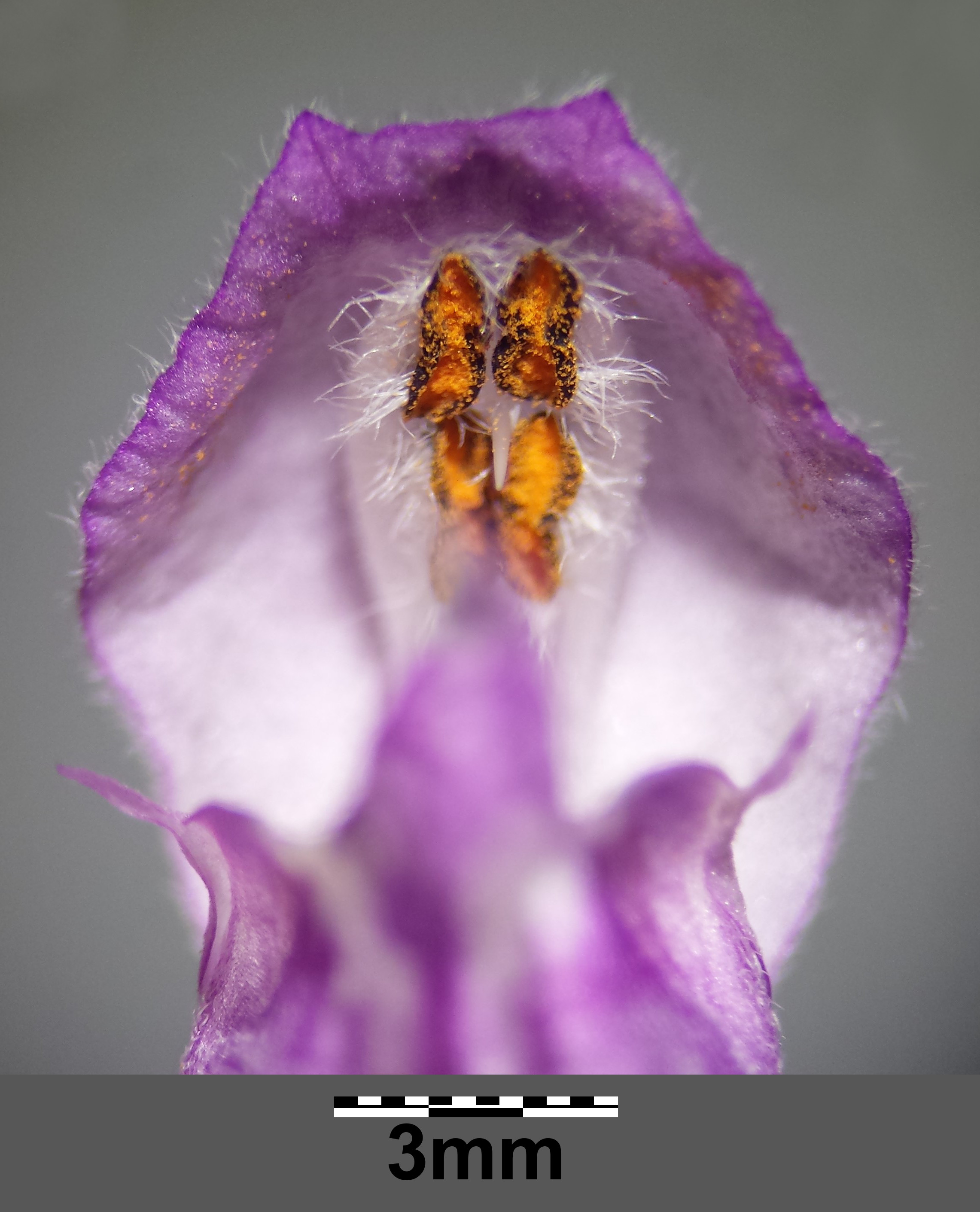 Flower with hairy antheres Taxonym: Lamium maculatum ss Fischer et al. EfÖLS 2008 ISBN 978-3-85474-187-9 Location: Rohrwald, district Korneuburg, Lower Austria - ca. 300 m a.s.l. Habitat: wayside